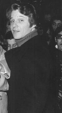 Adrián ghio- actor argentino